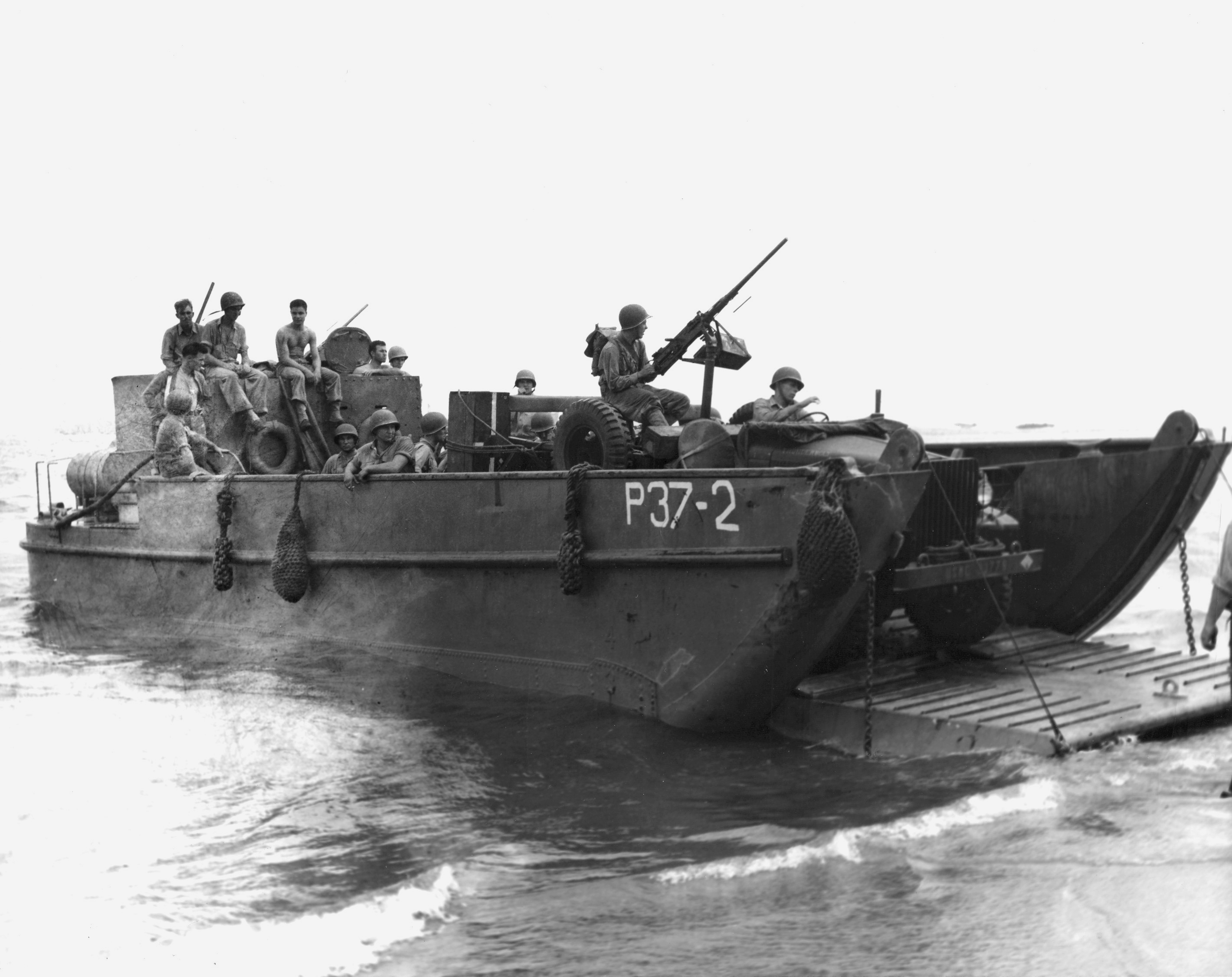 A LCM-2 from the U.S. Navy transport USS President Jackson (AP-37) beached on Guadalcanal with the ramp down and a Dodge T214-WC56 command reconnaissance truck about to disembark. President Jackson took part in the Guadalcanal Campaign and was redesignated APA-18 on on 1 February 1943.